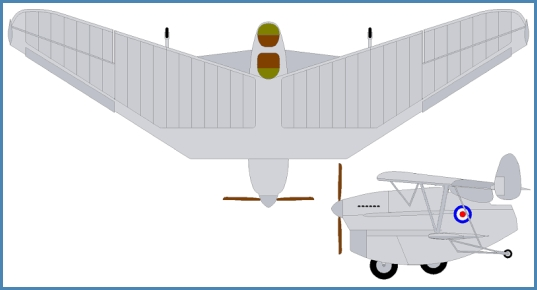 Westland/Hill Pterodactyl 5 1932